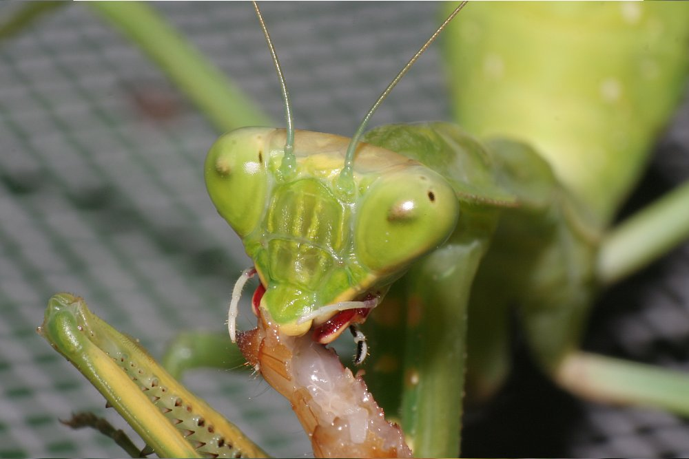 Mantis devouring a Tenebrius molitor